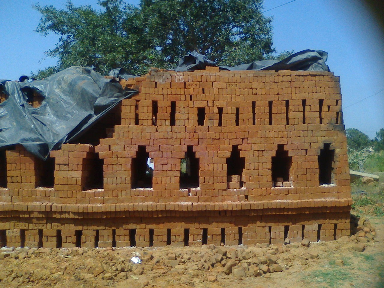 ஒரு செங்கல் சூலை